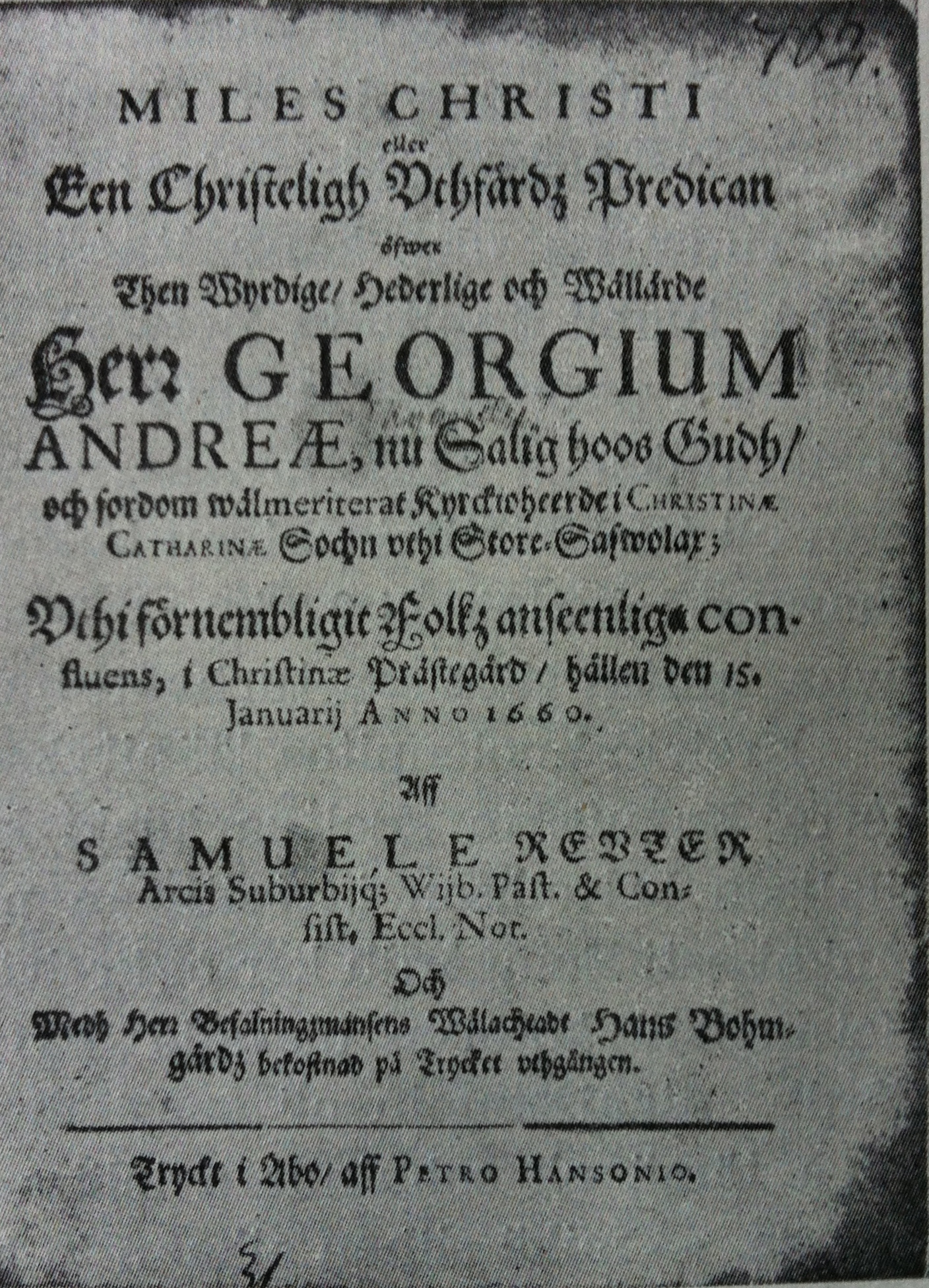 Cover page of Samuel Reuter's Sermon over Georgius Andreae Kyander in the vicarage of Ristiina, Finland in 1660.